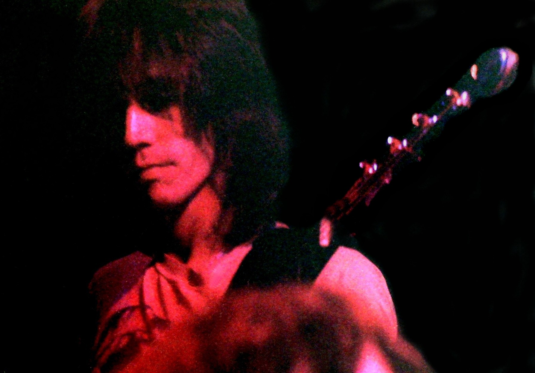 1978 - 7 - Ivan Kral , bass